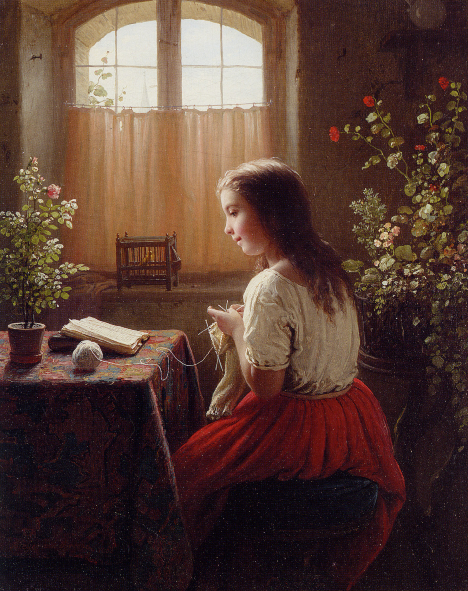 Afternoon amusements